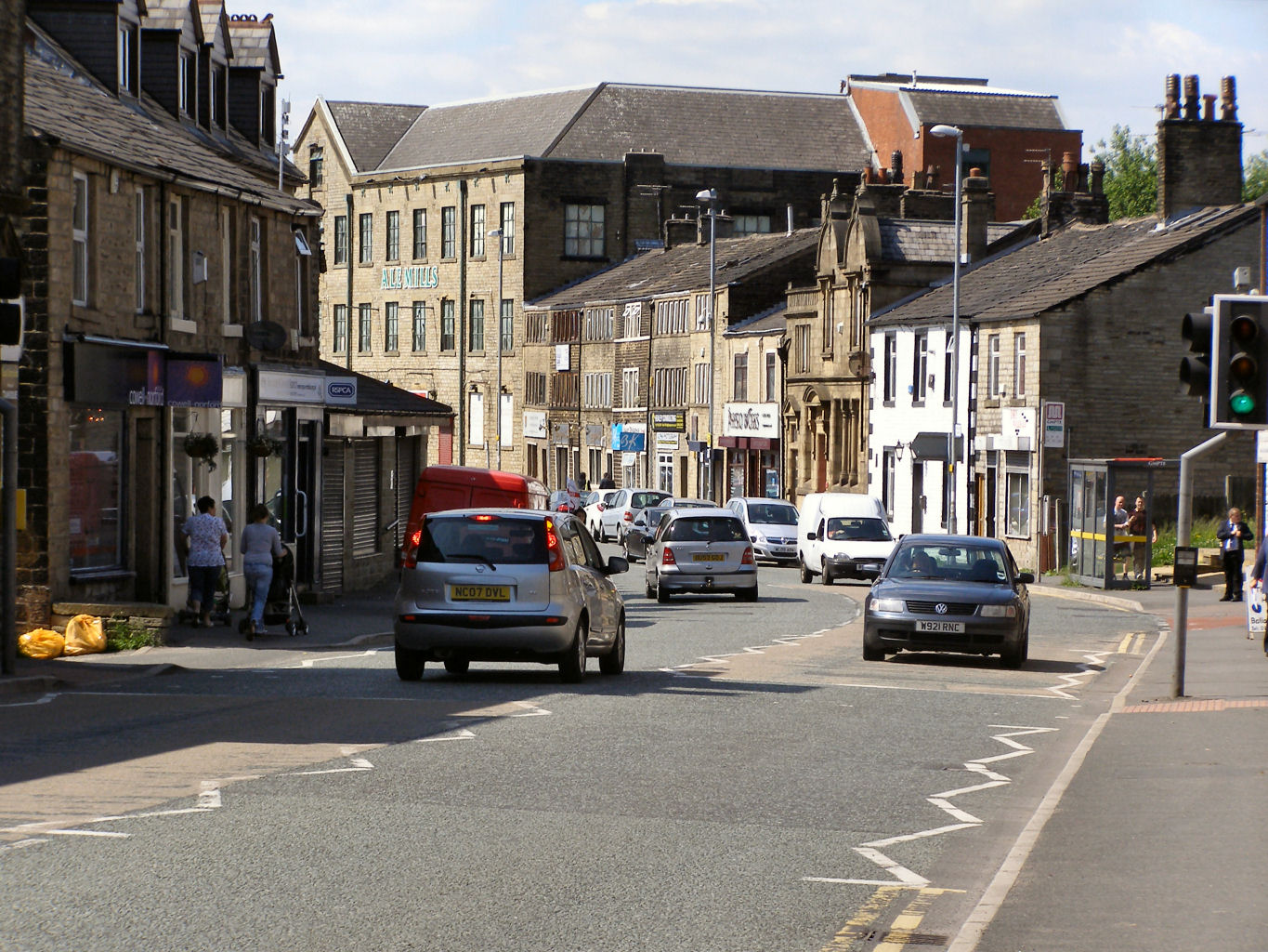 Dale Street in Milnrow, Greater Manchester, England. Dale Street is the main thoroughfare of Milnrow and the location of its central business district (town centre).